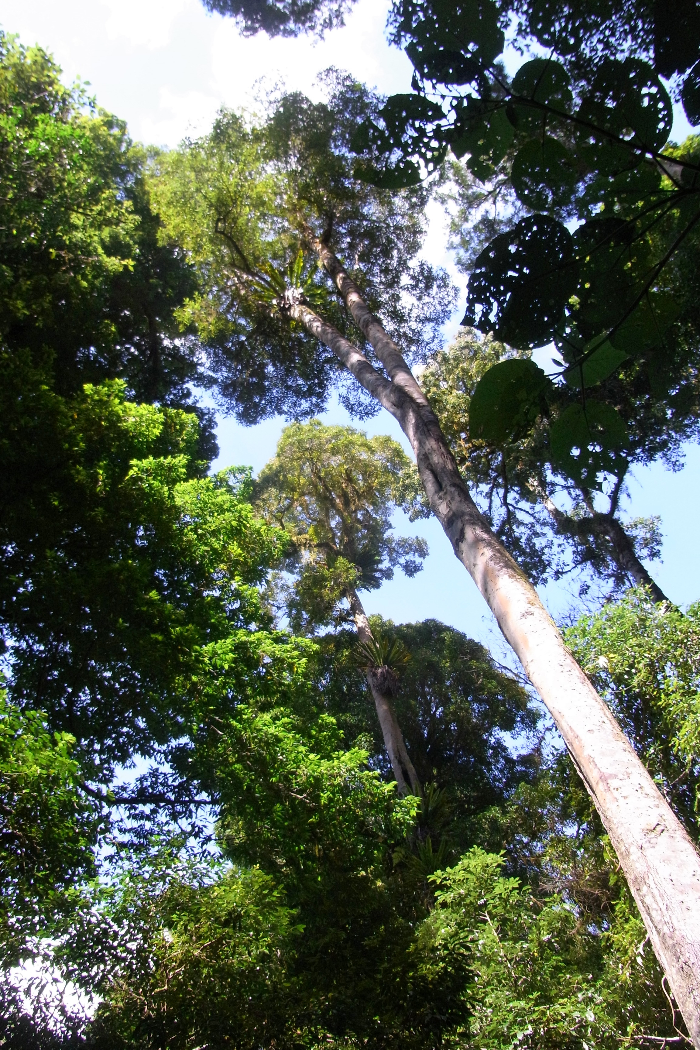 Yellow Carabeen - 52 metres tall. Tapin Tops National Park. NSW, Australia